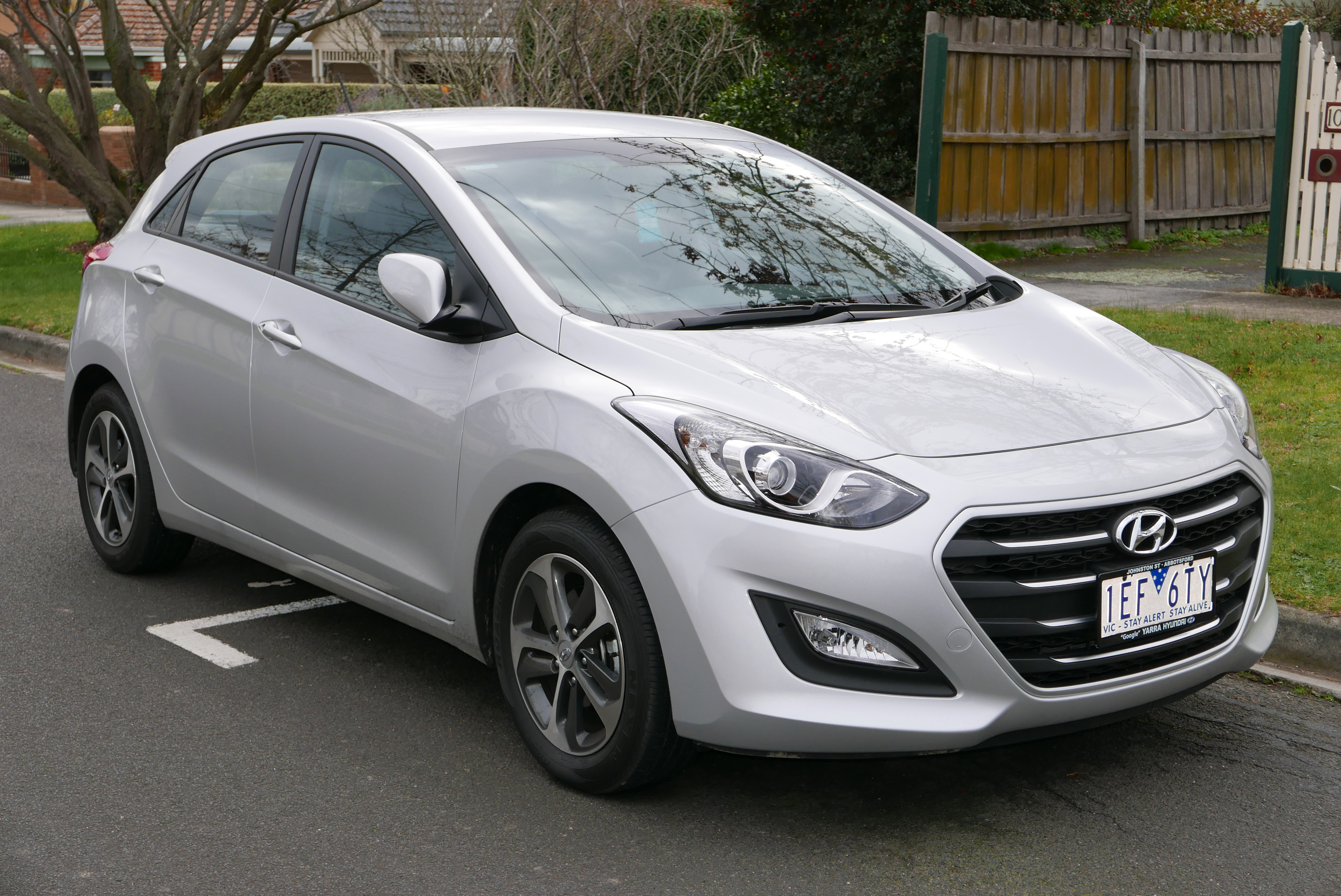 2015 Hyundai i30 (GD3 Series II MY16) Active X 5-door hatchback. Photographed in Box Hill North, Victoria, Australia. Vehicle registration enquiry resultsJurisdictionVictoriaRegistration1EF6TYChassis codeKMHD351EMGU274655Engine codeG4NBFU912651Compliance date2015-06Year of manufacture2015